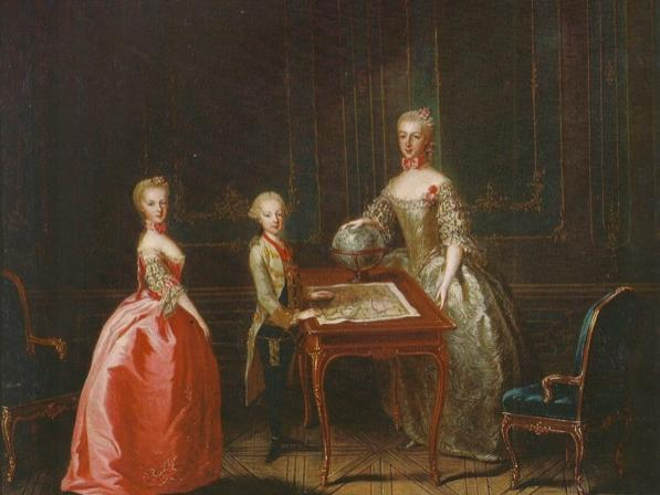 Archduchess Maria Josepha, Archduke Ferdinand with Archduchess Maria Amalia